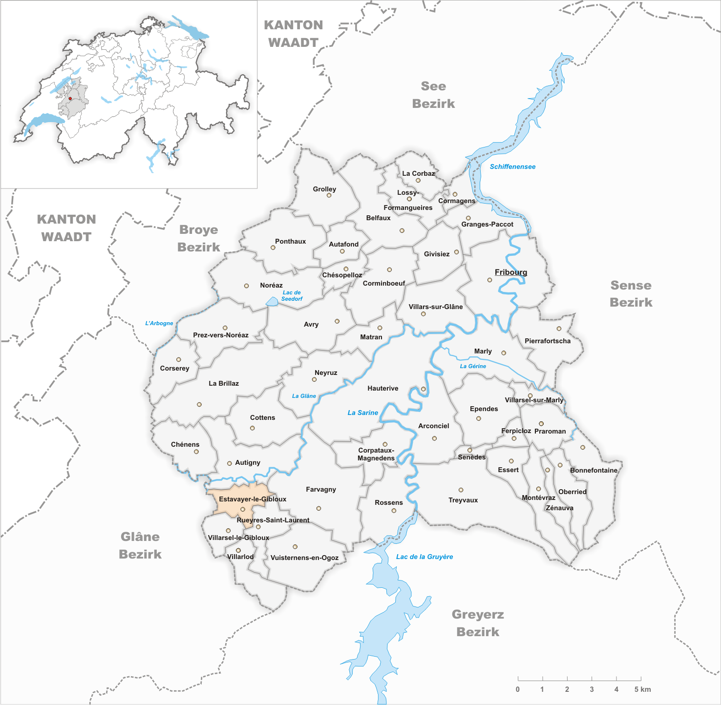 Municipality Estavayer-le-Gibloux Artist: Tschubby